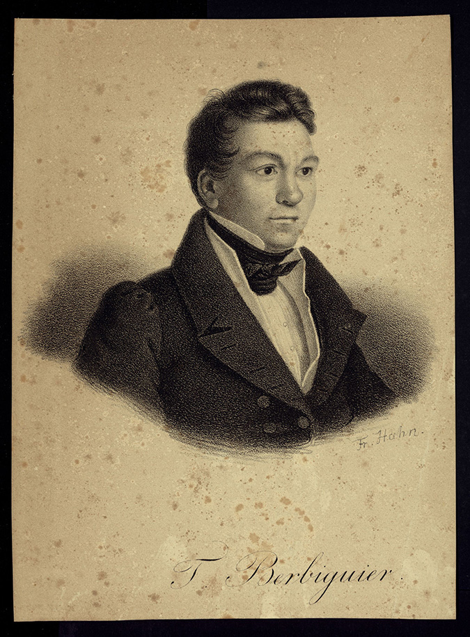 Portrait of Benoit Tranquille Berbiguier, composer (1782-1835).